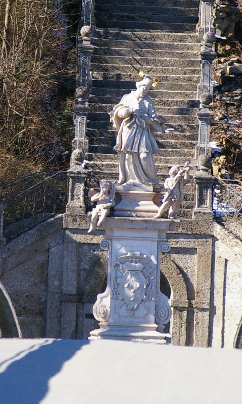 Saint John of Nepomuk by J. A. Pfaffinger